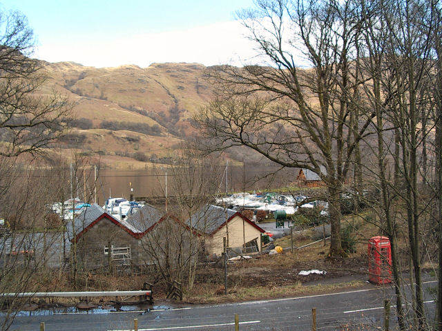 Ardlui, Argyll and Bute, photographed from the station